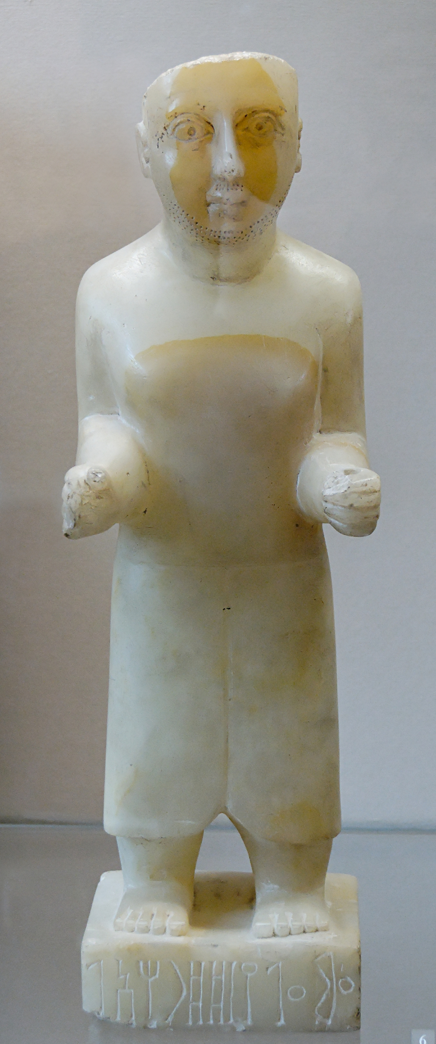 Qatabanian funerary statuette of 'Amma'alay of the Dharah'il clan. Alabaster, 1st century BC, Hayd ibn Aqil (Yemen).